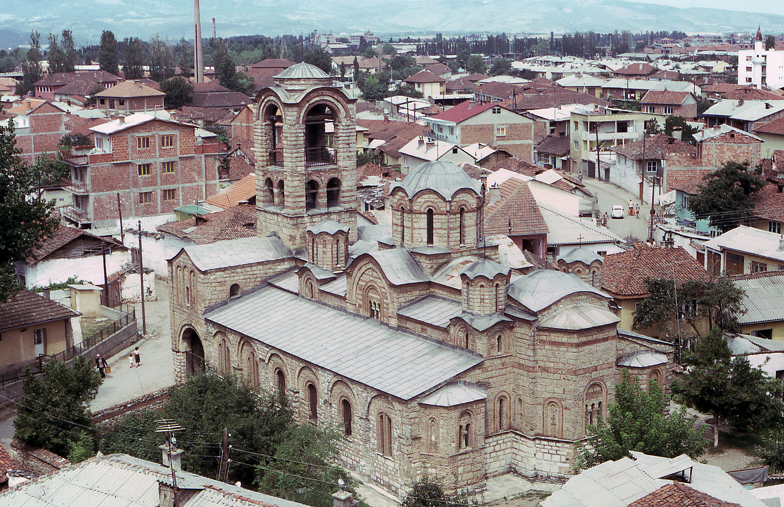 Serbian Orthodox Church of the Holy Mother of God (Bogorodica Ljeviška) in Prizren (14th Century)